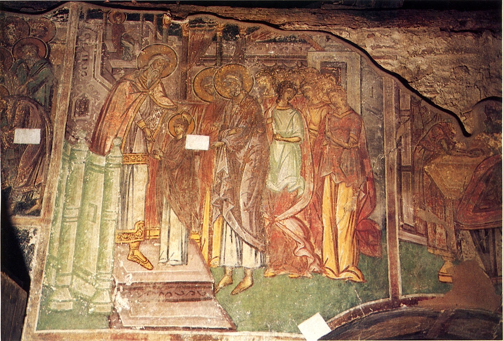 Saint Athanasius Church in Aiginio Libanovo, Presentation of Mary Fresco, 16th Century